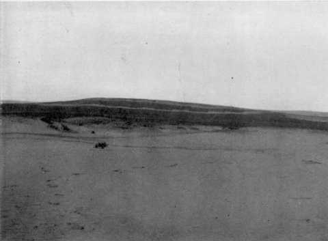 Photo of the main Ottoman defences at Rafa in 1917